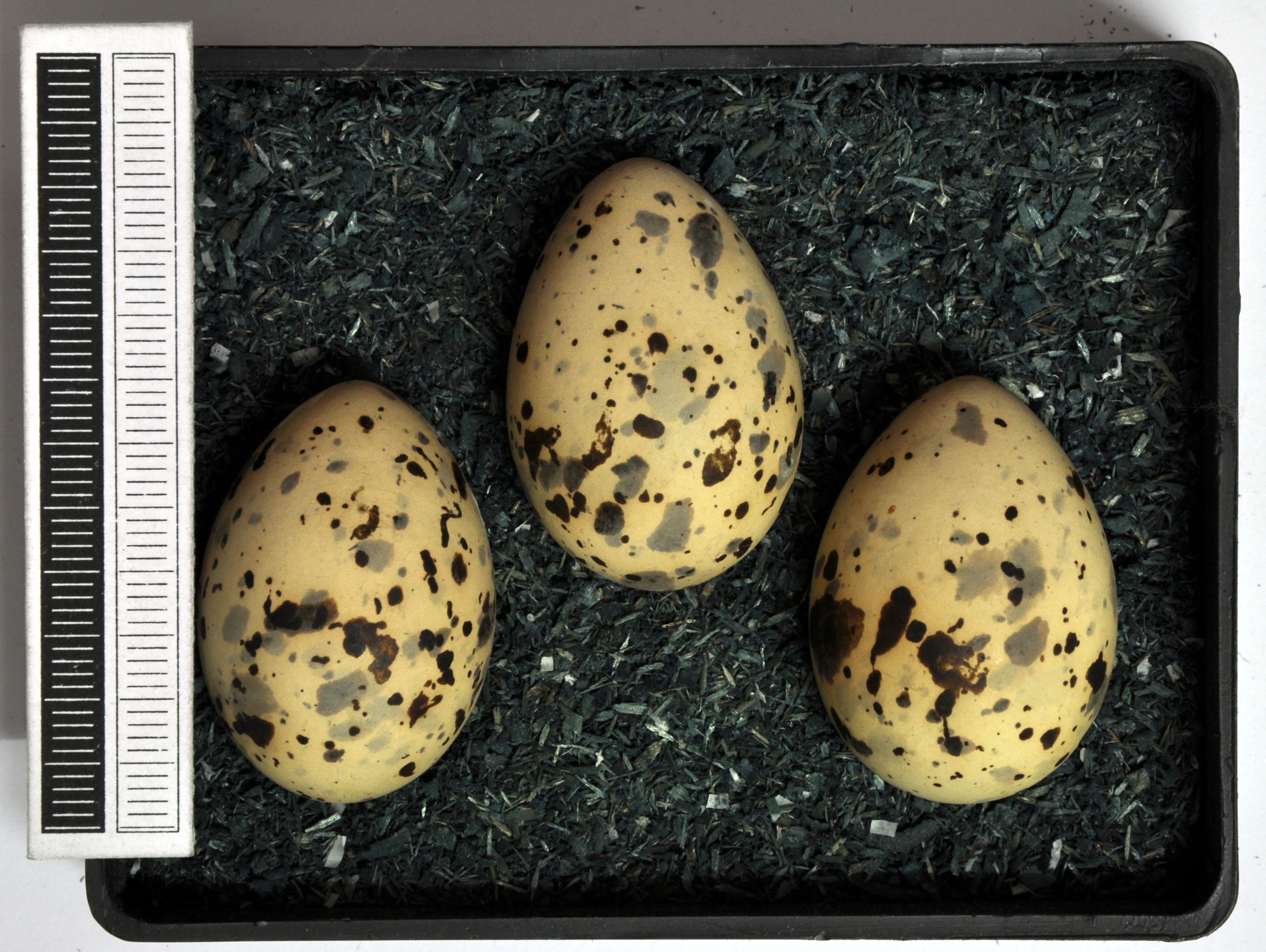 Little tern Sterna albifrons, egg, Coll. Museum Wiesbaden, Origin: Plön, Germany, 26.05.1949, leg. W. Abelmann